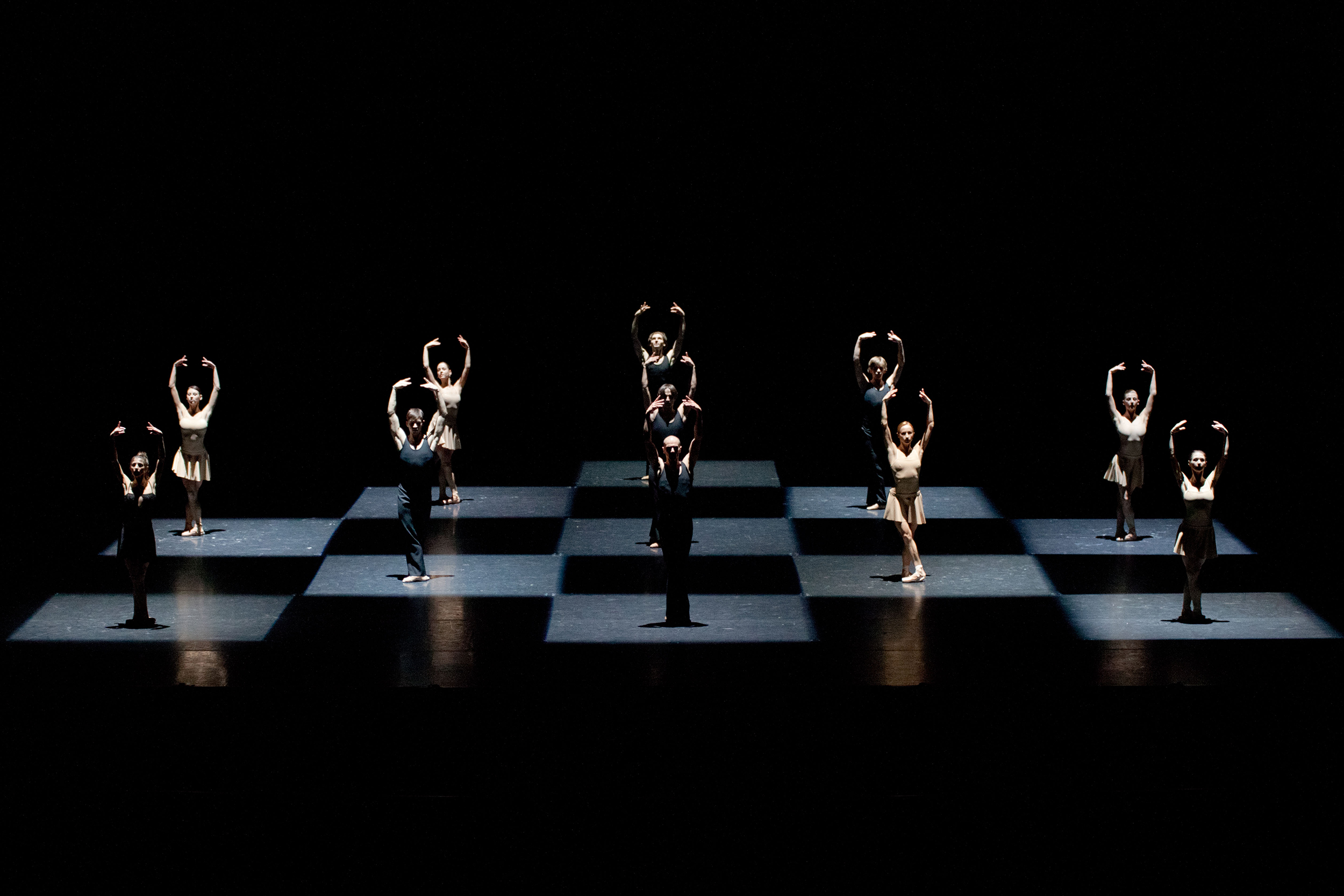 "Moving Rooms" ballet by Krzysztof Pastor, Polish National Ballet